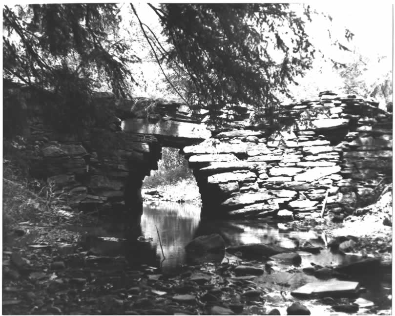 Side of the Bridge in Gibson Borough, which carries Legislative Route 57045 over Tunkhannock Creek in Gibson Township, Susquehanna County, Pennsylvania, United States. The bridge is listed on the National Register of Historic Places.